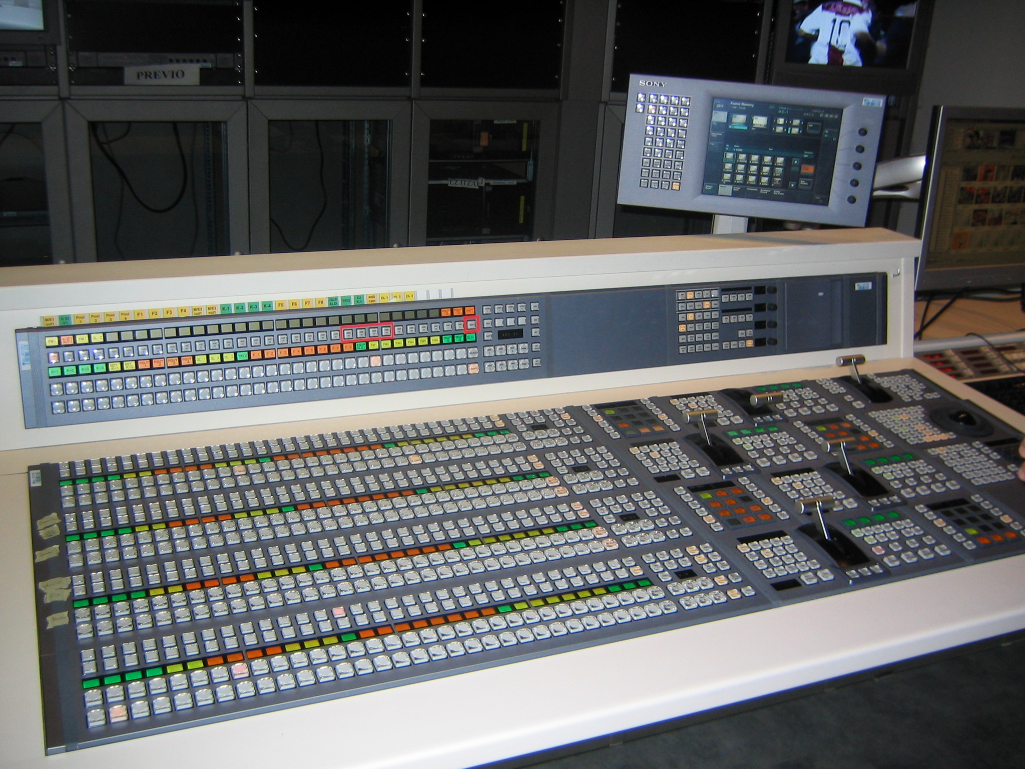 Sony DVS-9000 video switcher